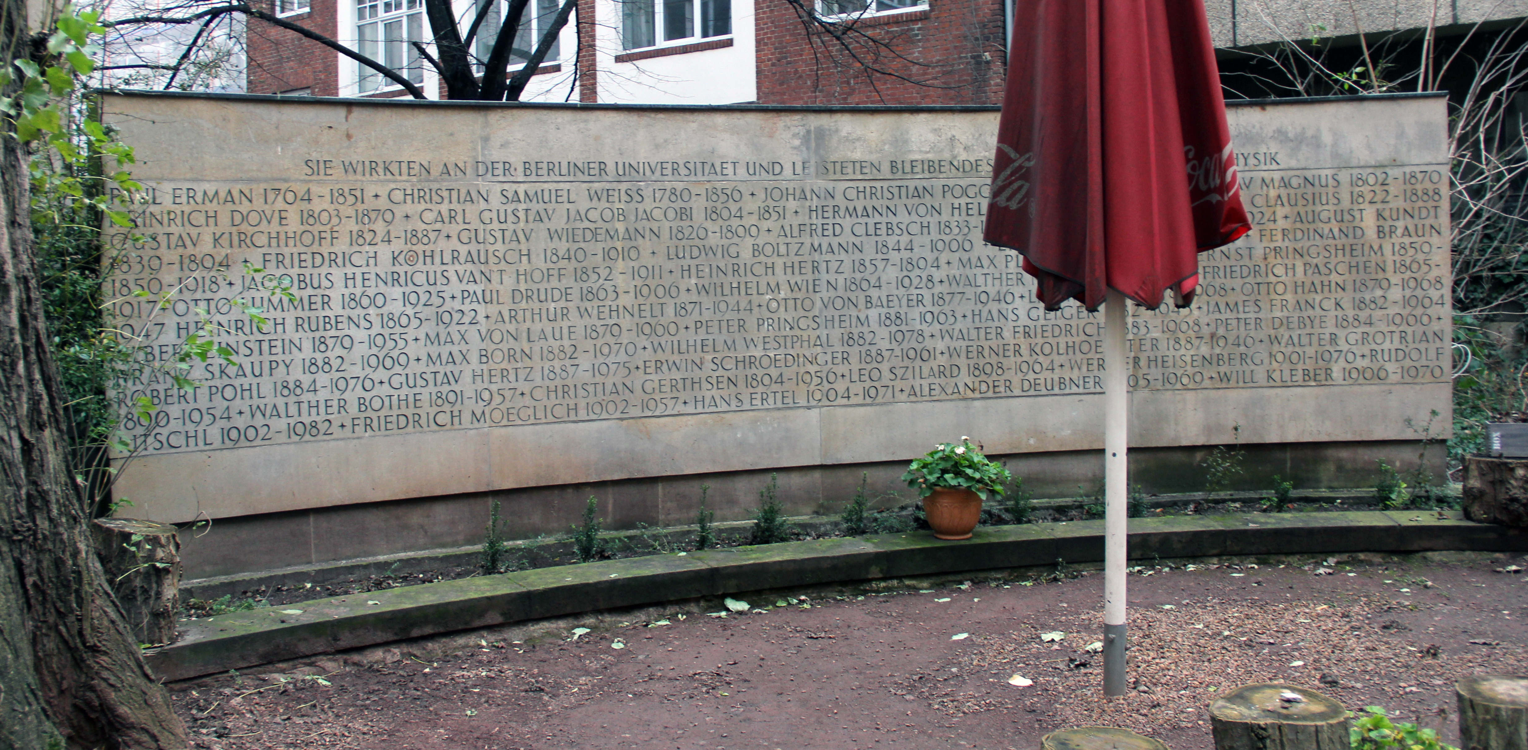 Memorial stone, Physiker, Invalidenstraße 110, Berlin-Mitte, Germany